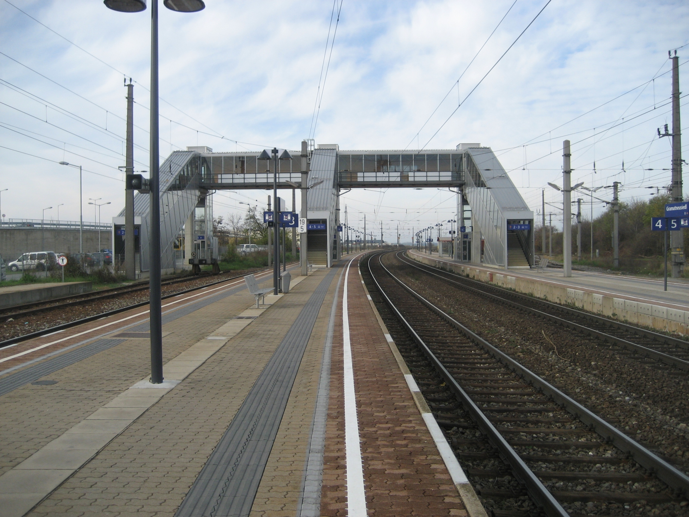 train station Gramatneusiedl in Lower Austria